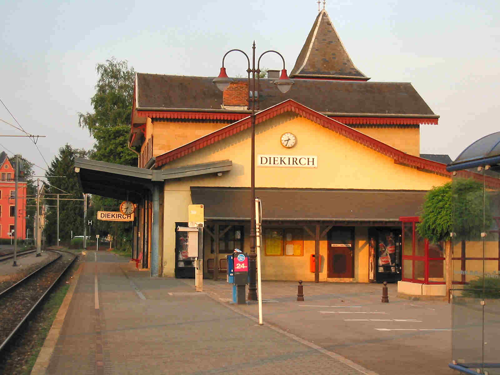 Railway station in Diekirch with platform and grammar school in the background